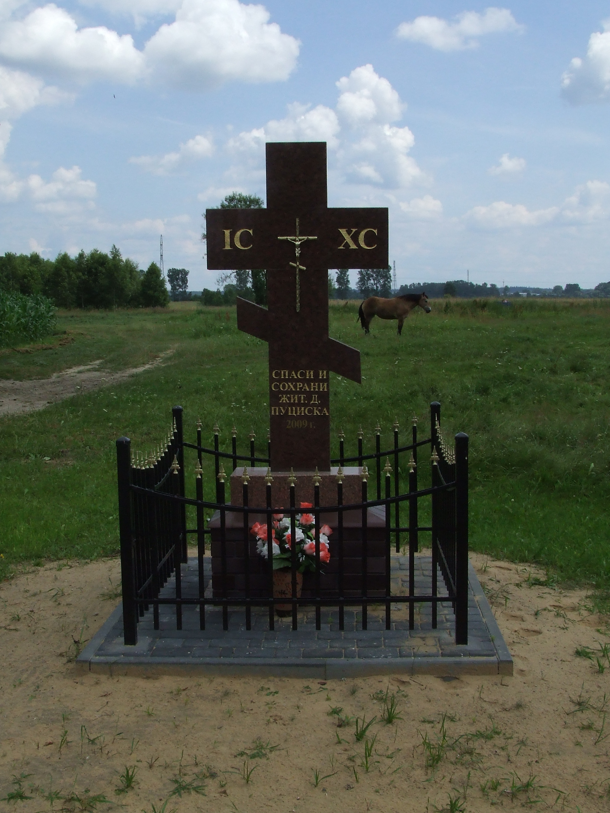 This photo from Podlaskie Voievodeship was taken during Polish Wikiexpedition 2009 set up by Wikimedia Polska Association. The making of this document was supported by Wikimedia Polska.